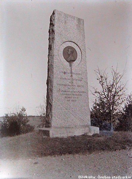 The monument over Nils Gabriel Djurklou, Odensbacken, Sweden